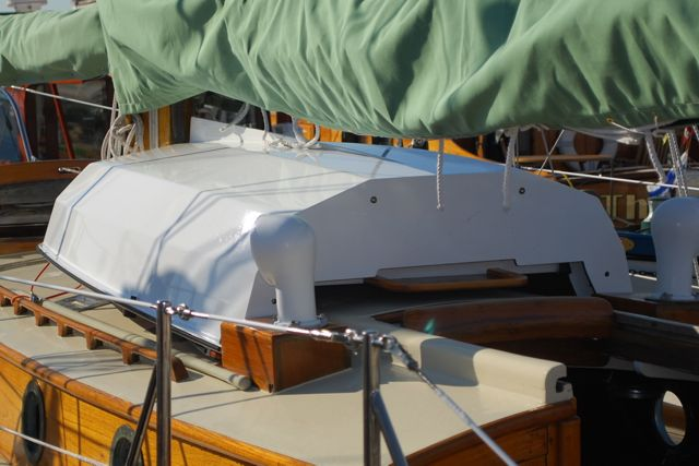 A wood dinghy that separates into two parts and the bow half ‘nests’ in the aft half, making it possible to own a relatively large dinghy that will store in a relatively small space on the deck of your boat. This one (a PT11) is home-built from a kit and can be assembled in the water as well as on land or on deck. It also has adequate built in air buoyancy based on USCG calculations.